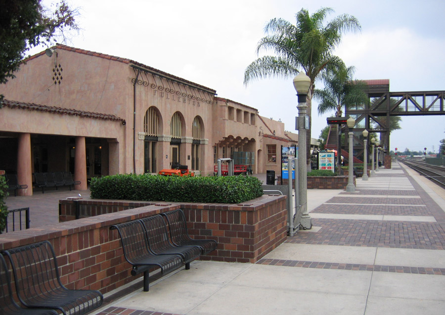 Fullerton Train Station, trackside.